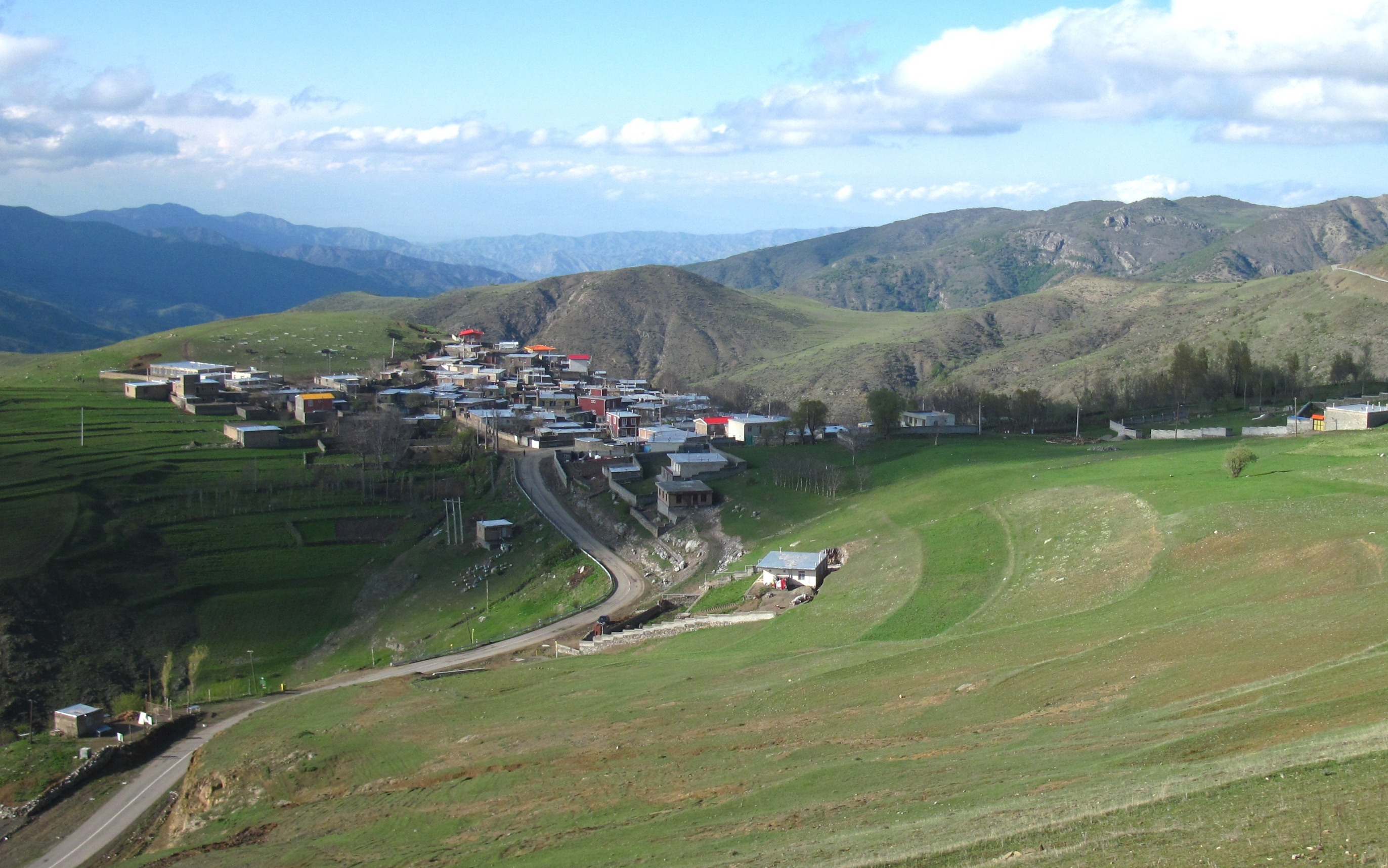 This photo was taken by Ravanbakhsh Leysi, and is intended for Aghaweye wikipage.